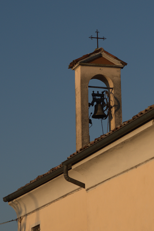 Small bell tower of the sanctuary of the Madonna del Pilastrello